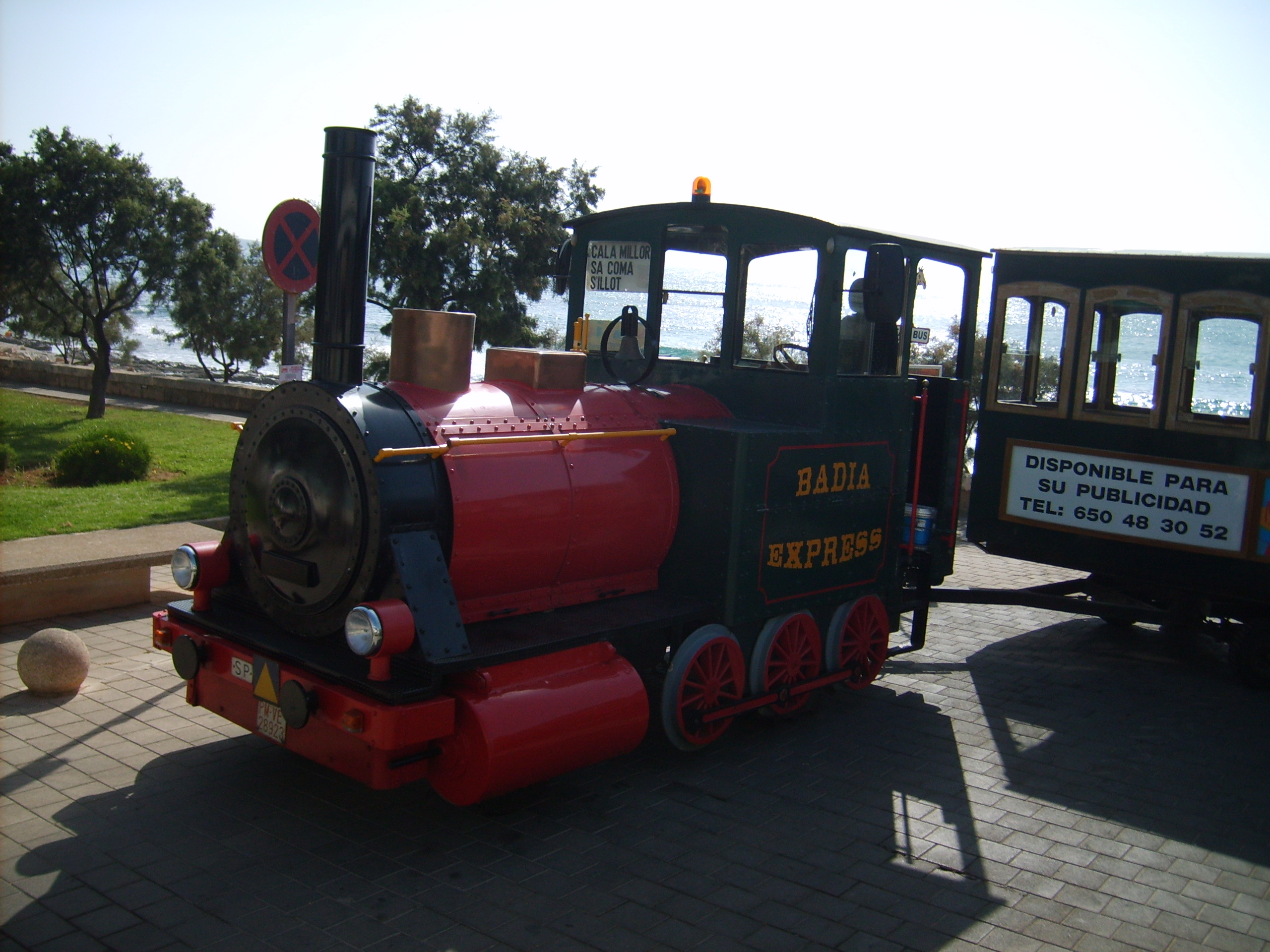 Der Badia-Express in S´illot